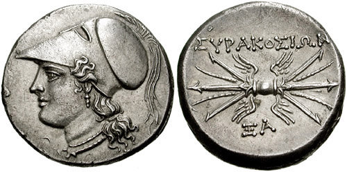 Syracuse. Republic. 214-212 BC. AR 8 Litrae (23mm, 6.79 gm). Helmeted head of Athena left / ΣΥΡΑΚΟΣΙΩΝ, winged thunderbolt